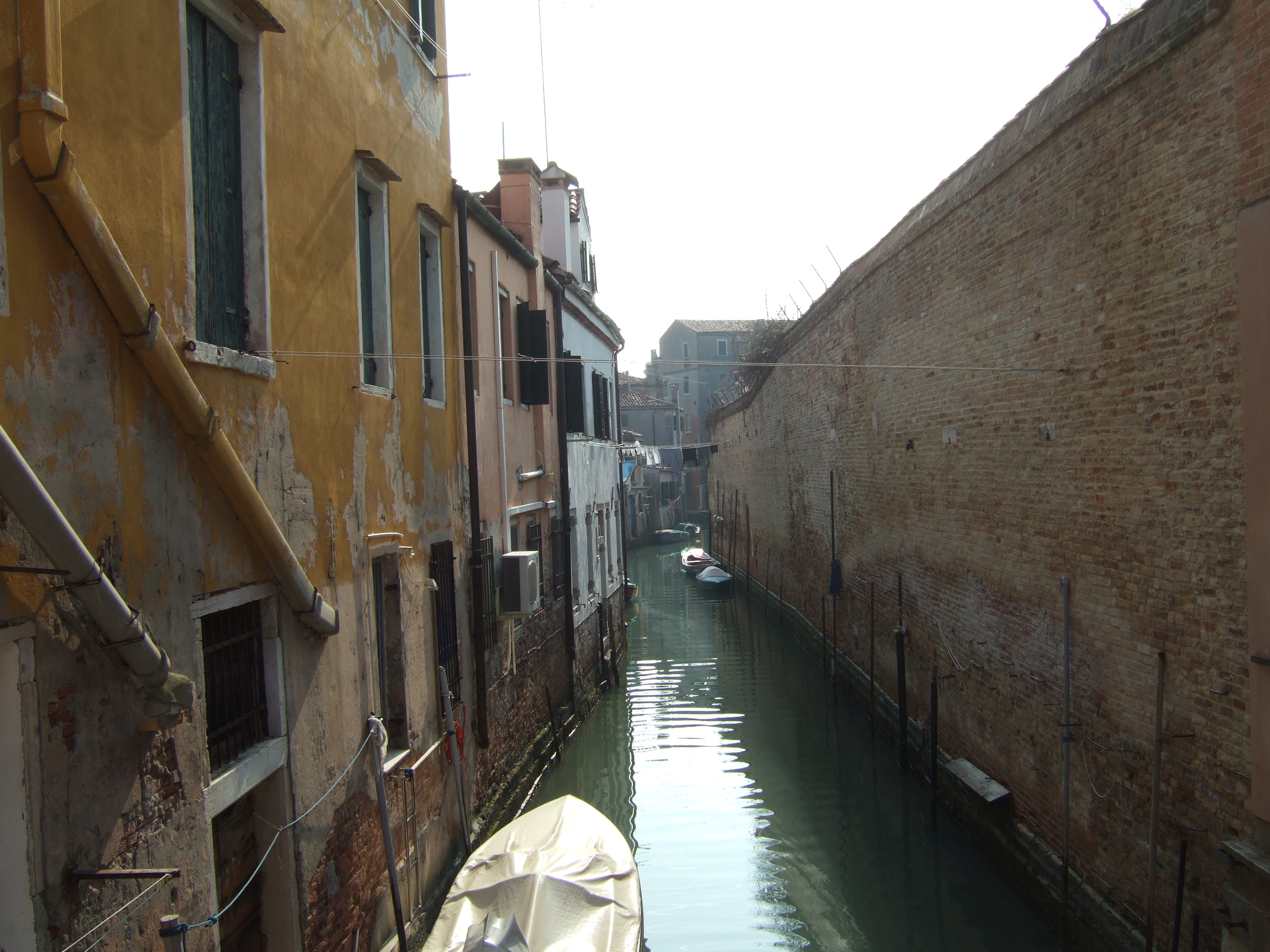 Rio di San Daniele, south view from Ponte San Daniele (Venezia)